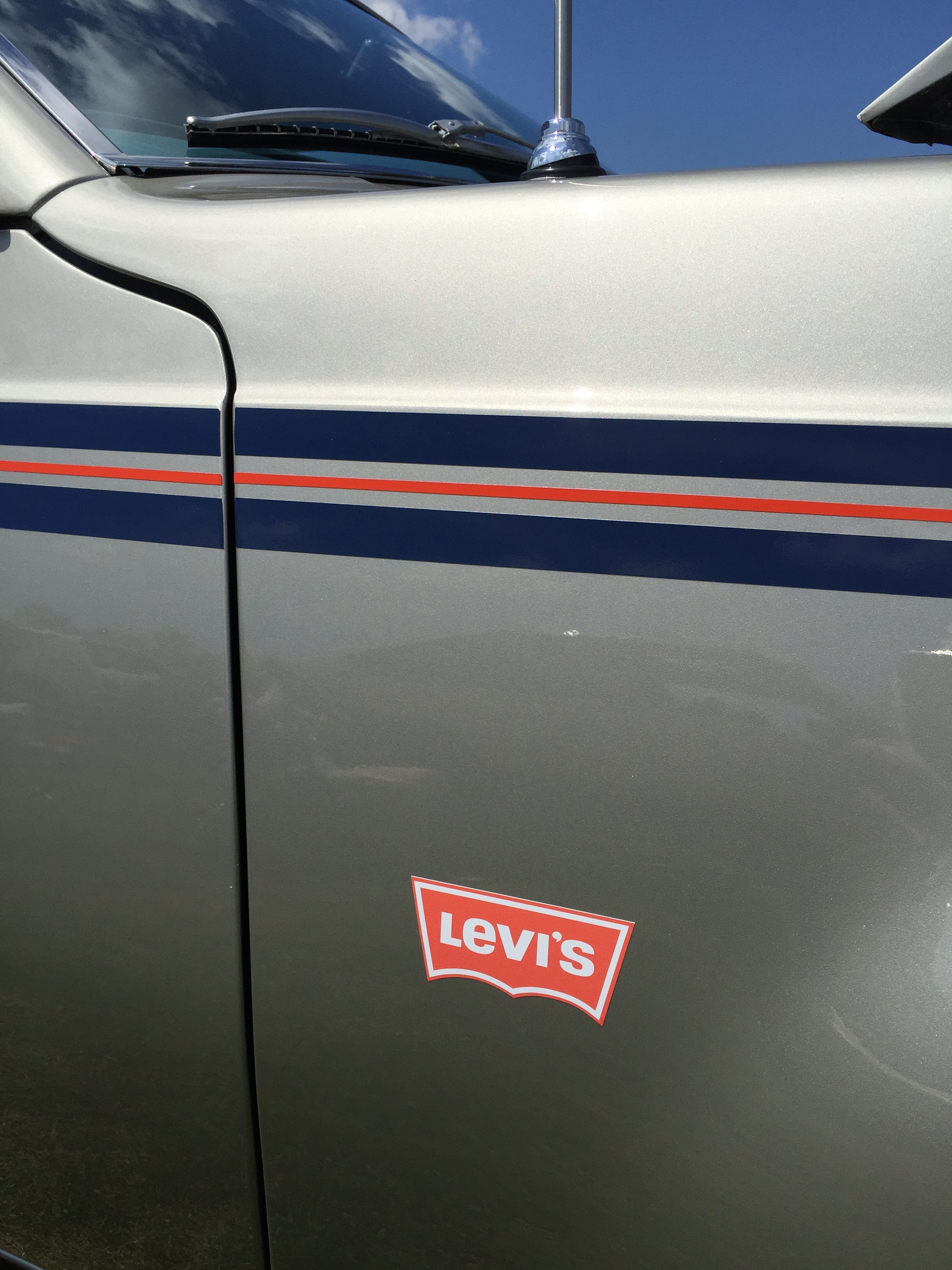 1973 AMC Hornet X, a sporty compact-sized hatchback made by American Motors Corporation. This Pewter Silver (paint code E5) car has the optional Levis interior. Real denim was not used because it was not tough enough to serve as automobile upholstery. AMC turned to spun nylon that looked like the genuine article, as well as copper Levis rivets, traditional contrasting stitching, and even the Levi’s tab on both the front seat backs. The option also included unique door panels with Levis trim and removable map pockets, as well as Levis decals on the front fenders. The X package included coordinated "rally" side stripes, 14 x 6-inch slot-style steel wheels with C78 x 14 Polyglas blackball tires, an "X" emblem, and a sports steering wheel. Picture taken at the American Motors Owners Association (AMO) annual convention that was held July 2015 near Cleveland, Ohio.